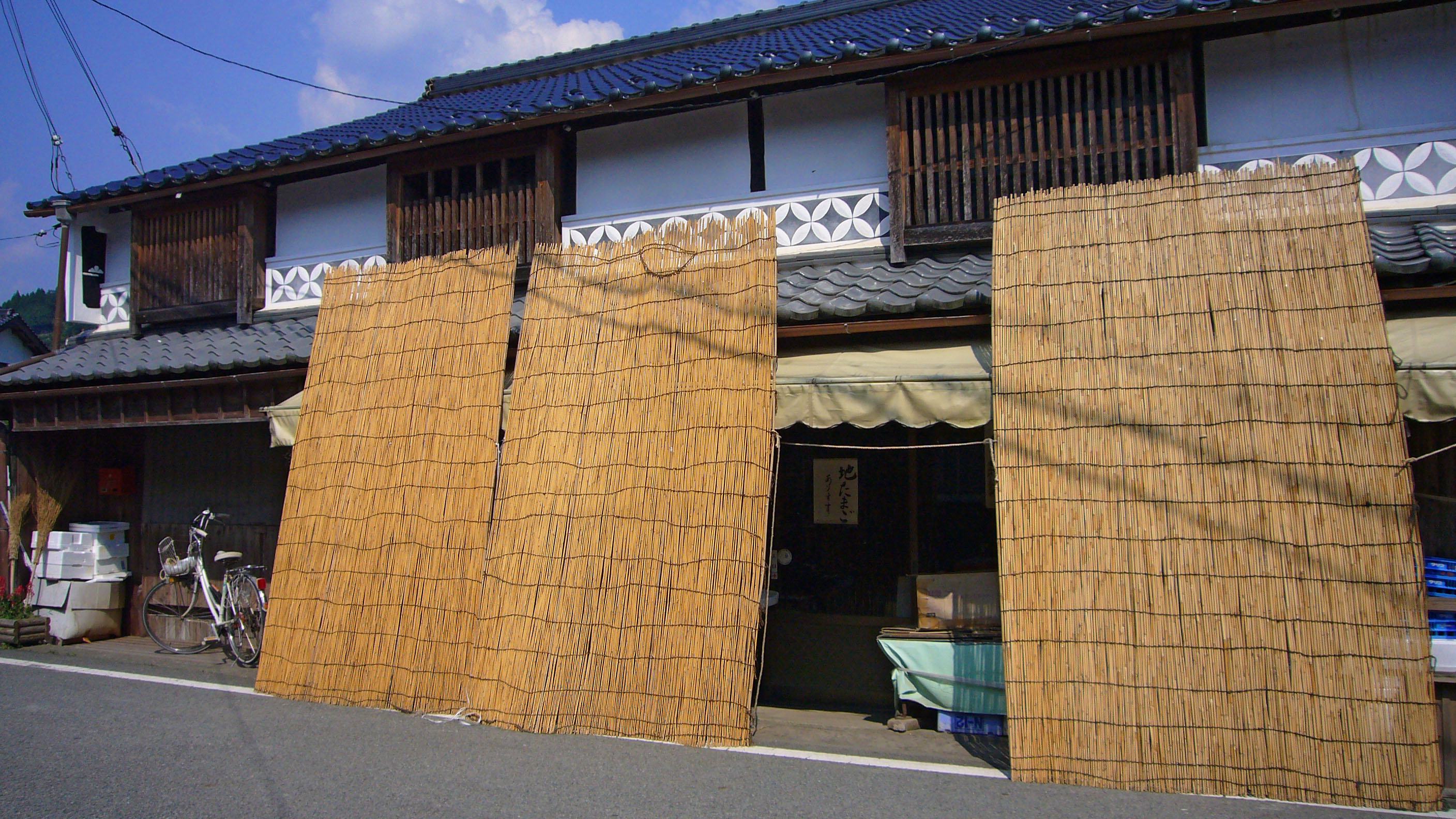 Scenery of Hirafuku in Sayo, Hyogo, Japan